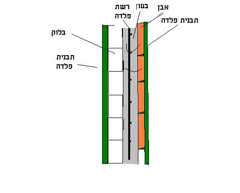 Baranovich method in concrete + stone buildings